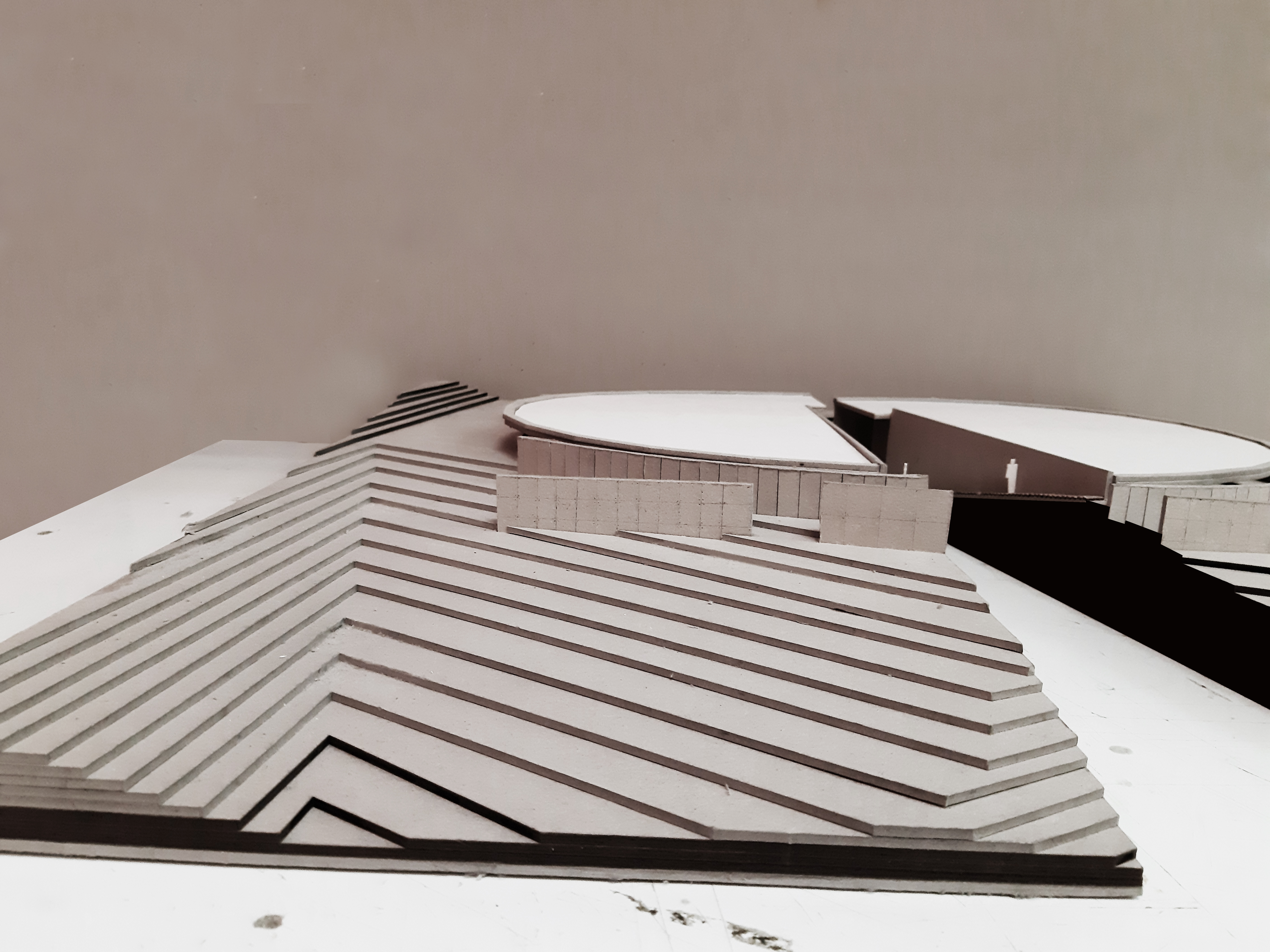 photo of model of the building "Water Temple" designed by the architect Tadao Ando